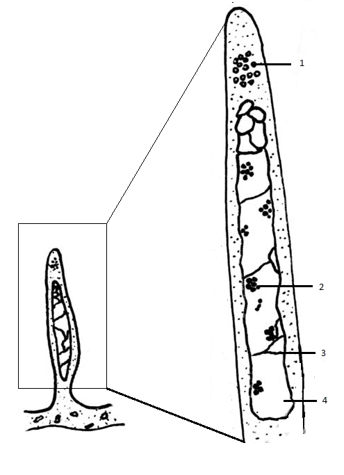 Figure5. Lipid globules and protein crystals in sporangiophore. The numbers indicate the following: 1. Lipid globules; 2. Protein crystals; 3. Vacuolar transepts; 4. Central vacuole